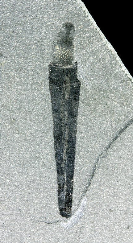 Selkirkia columbia, photographed dry under cross-polarized light. Colour-balancing performed; original high-resolution file at